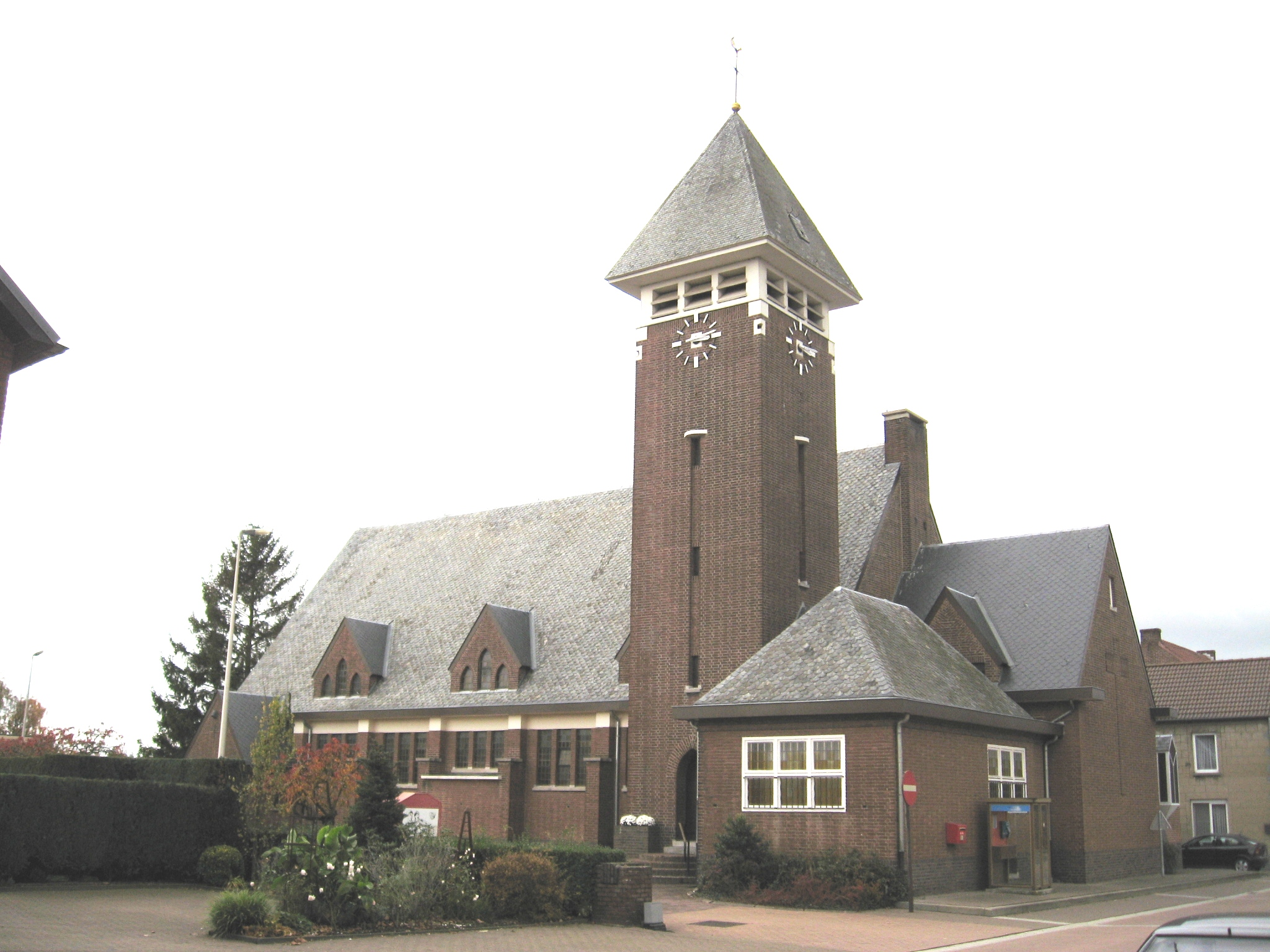 Church of Saint Joseph in Neeroeteren (Voorshoven), Maaseik, Limburg, Belgium